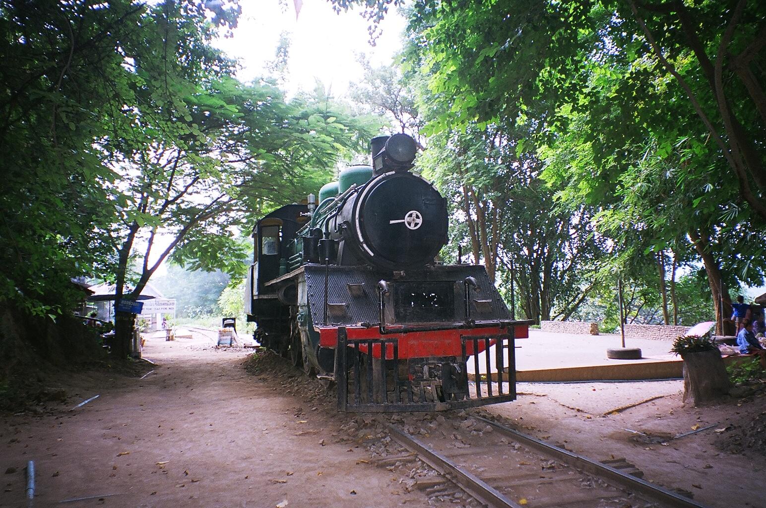 SL used after World War II, made in Japan, now located just beside Nam Tok Sai Yok Noi Railway Station.